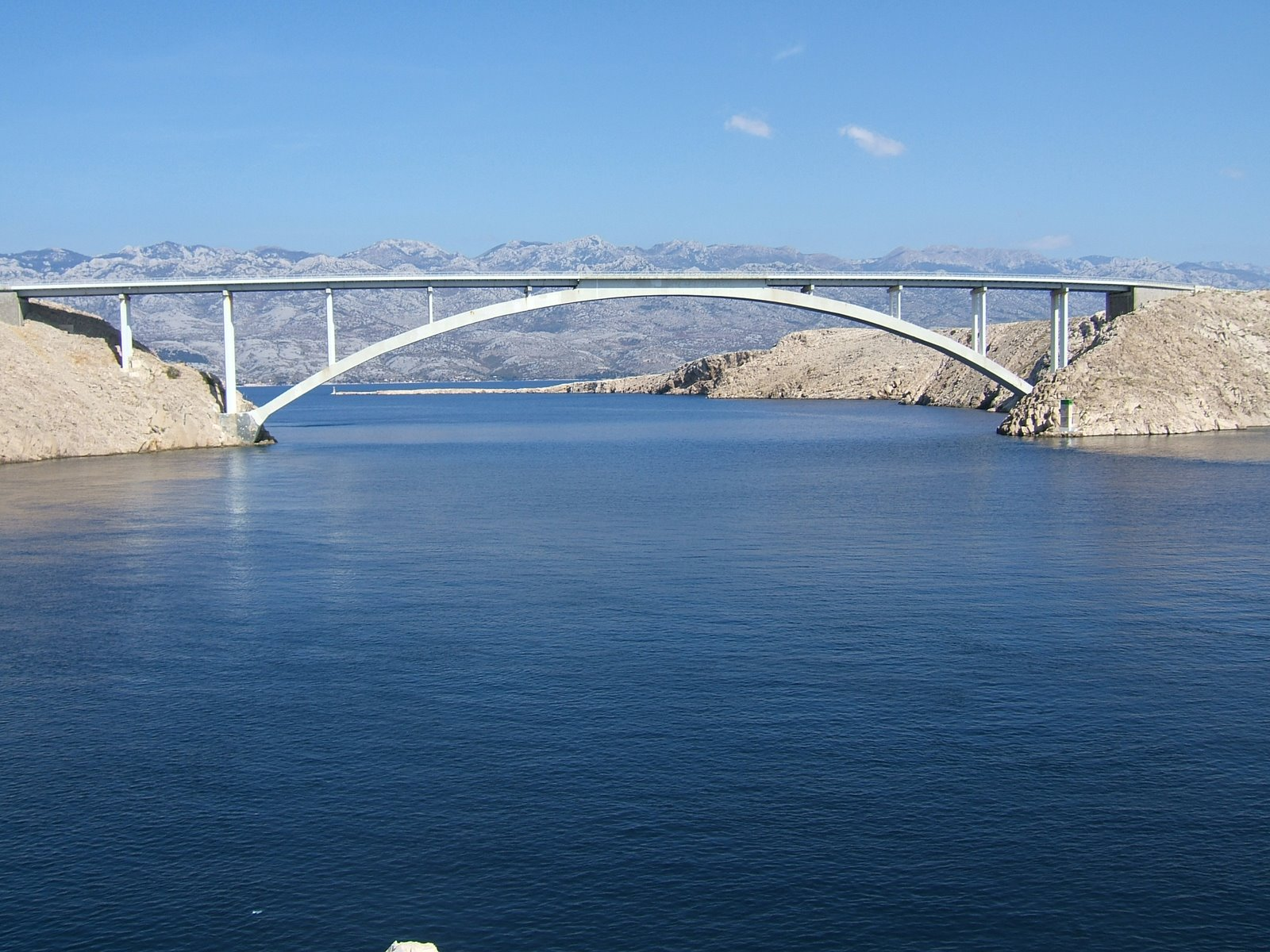 The bridge of Pag, Croatia.